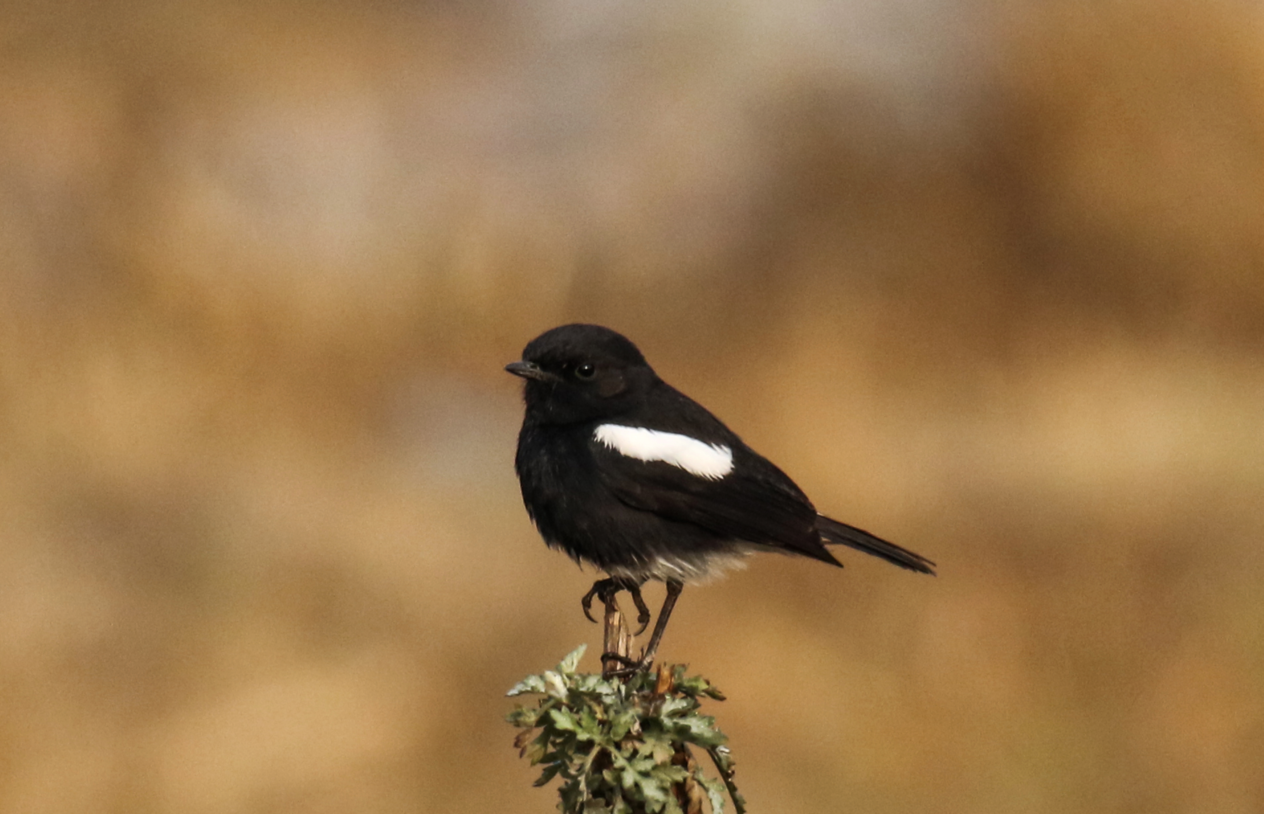 Saxicola caprata, Birds of Nepal